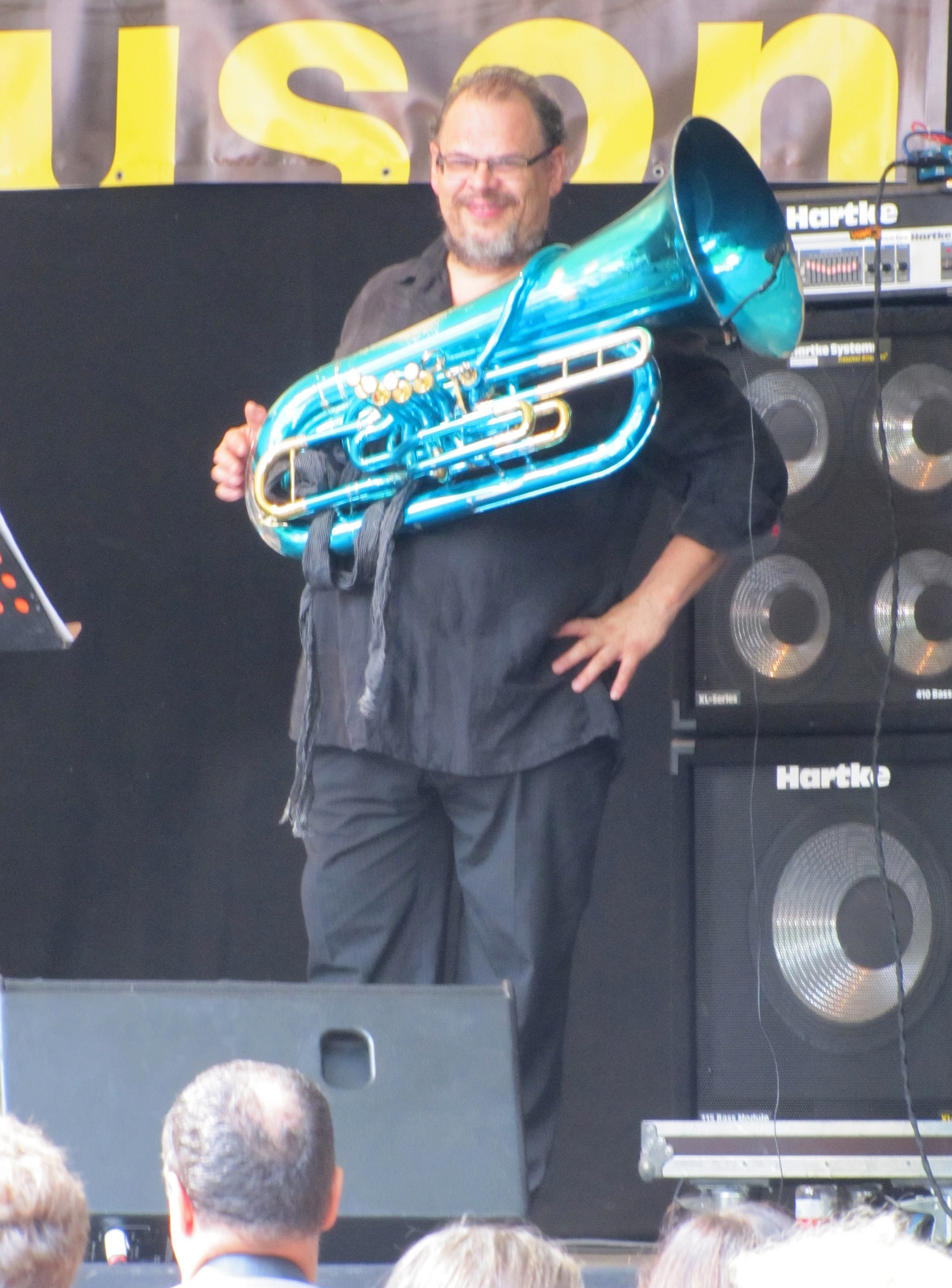 Michel Godard (with Patrice Heral and Christof Lauer), 2010 in Frankfurt am Main, at garden of "Liebieghaus" (museum), Germany